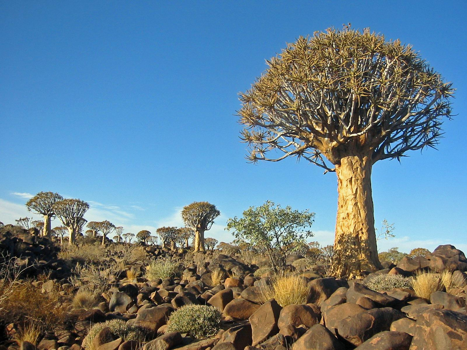 Quiver tree forest (Aloe dichotoma) near Keetmanshoop, Namibia